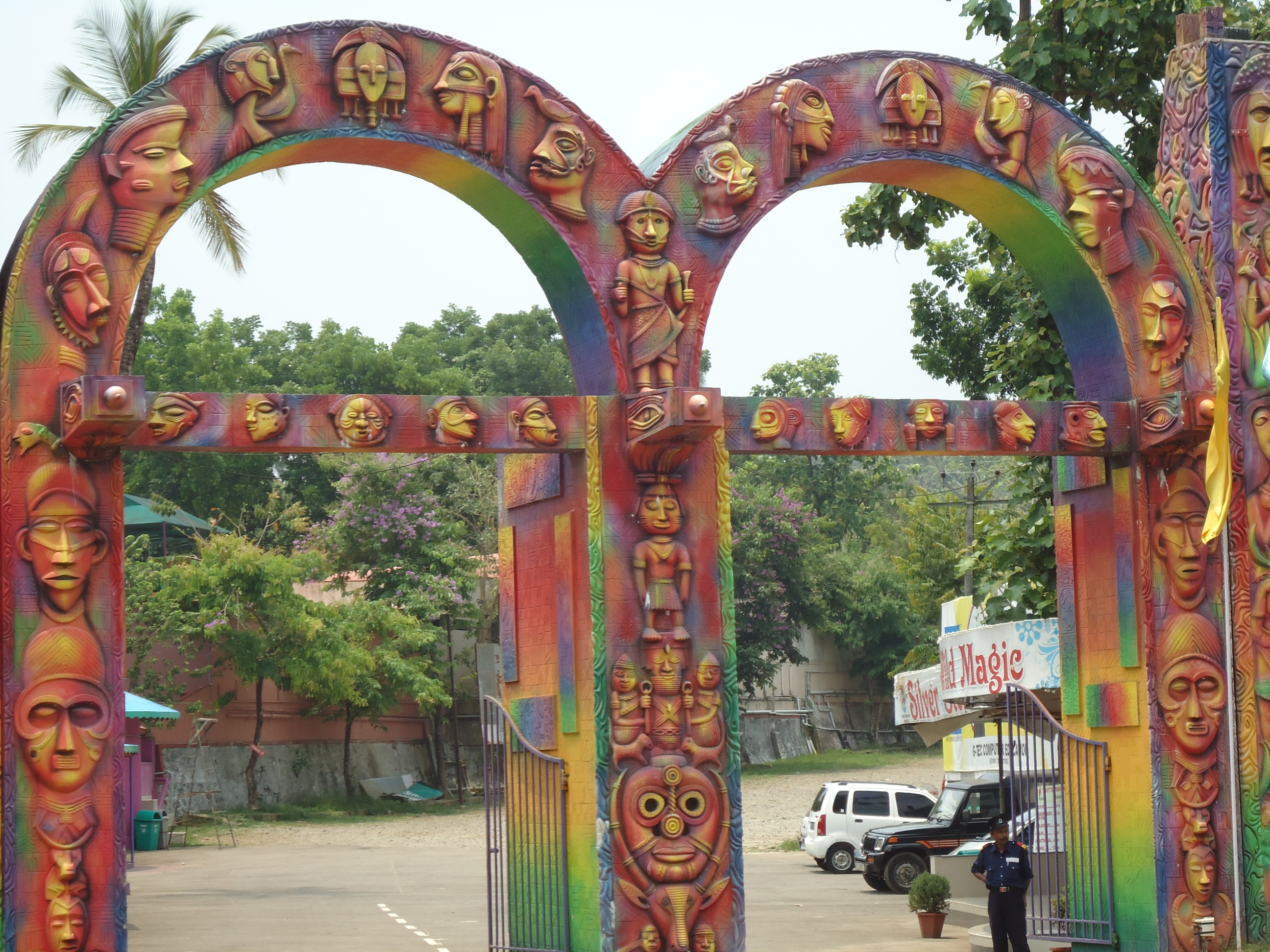 Silver Stome Water Theme Park Entrance